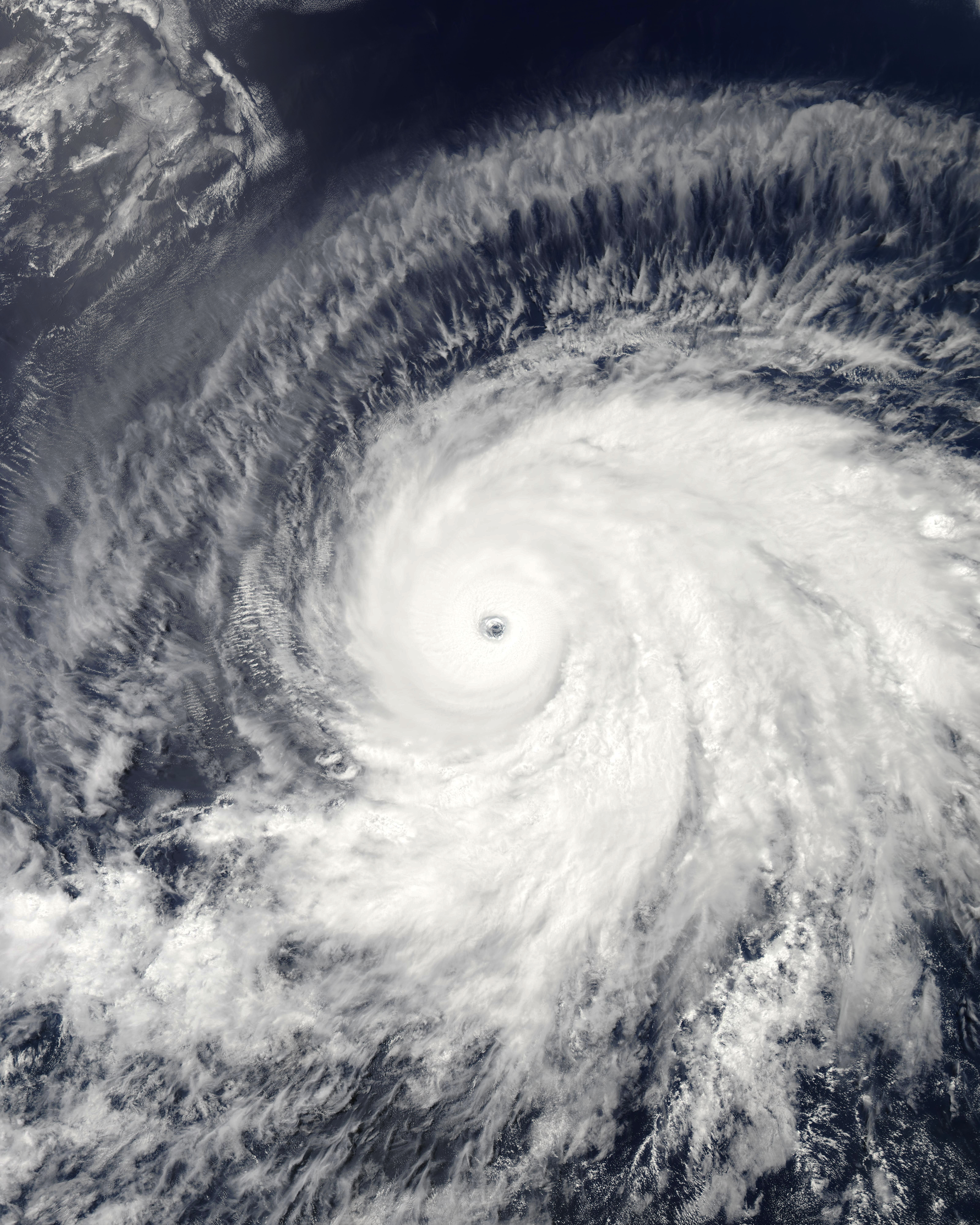 Hurricane Barbara near peak intensity in the Eastern Pacific Ocean on July 2, 2019